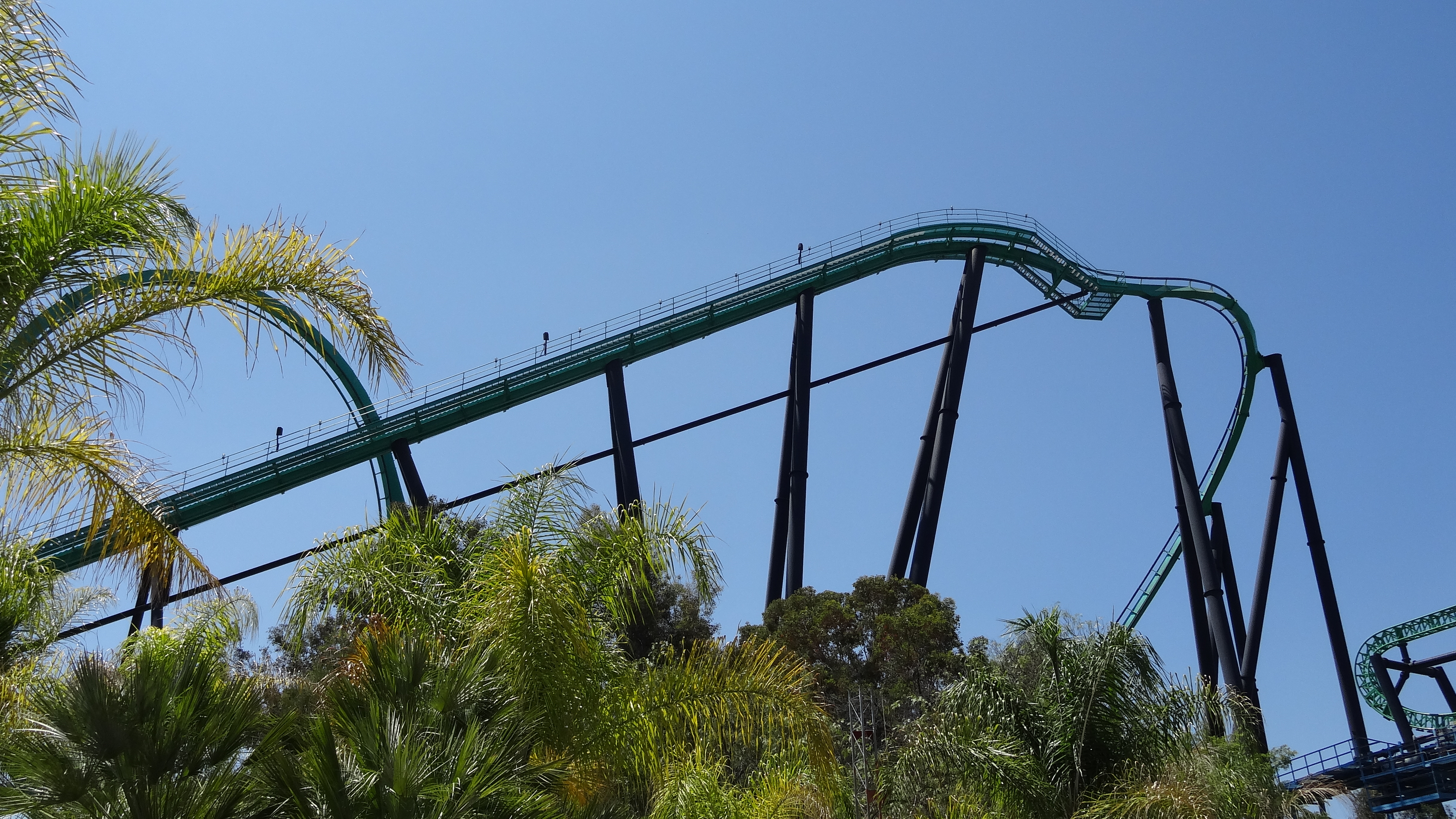 The Riddler's Revenge is a stand-up roller coaster which is currently the world's tallest and fastest stand-up roller coaster. The coaster features 7 inversions and is one of the few rides to offer a single rider line.